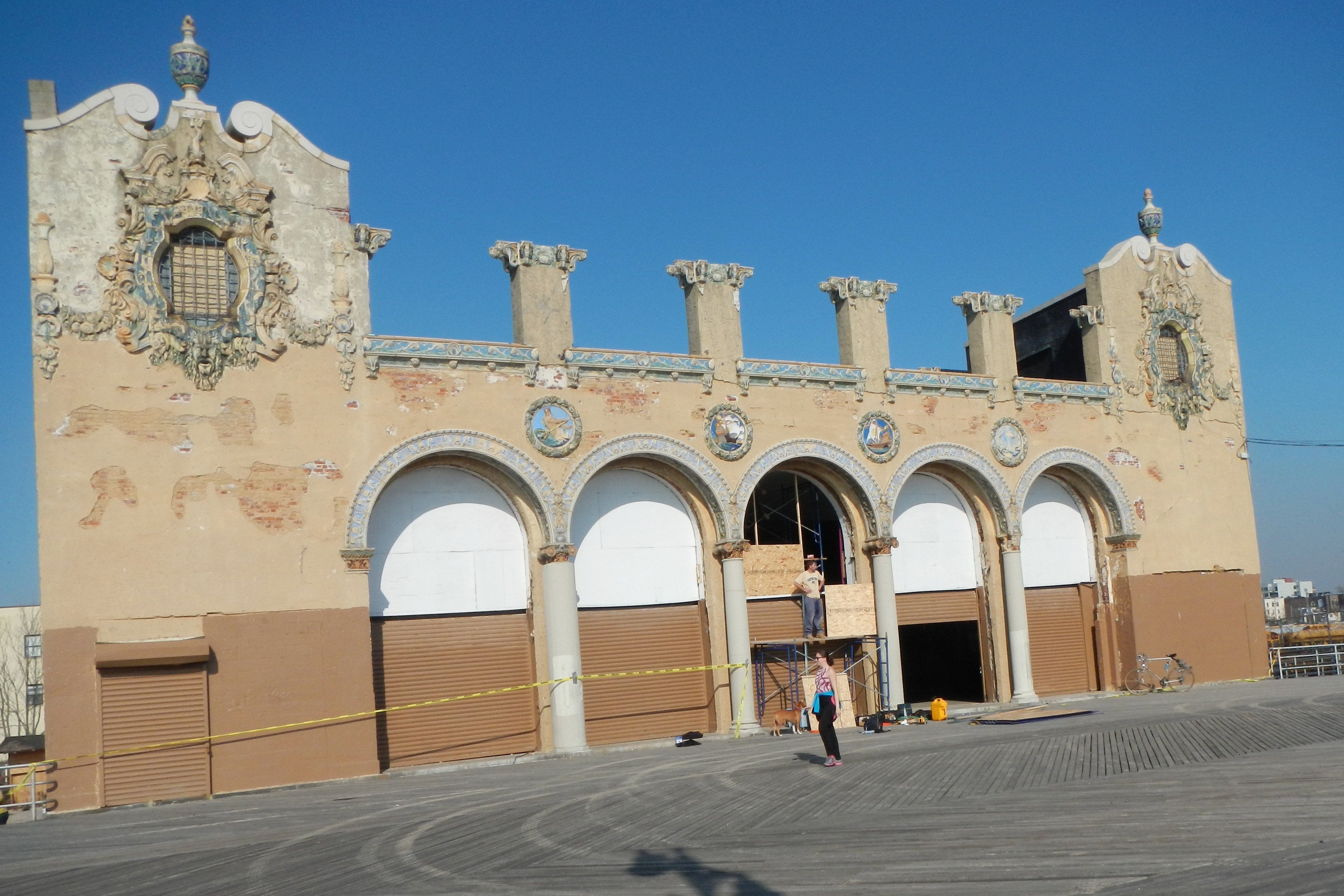 Looking north at Childs being renovated on a sunny midday after Hurricane Sandy.